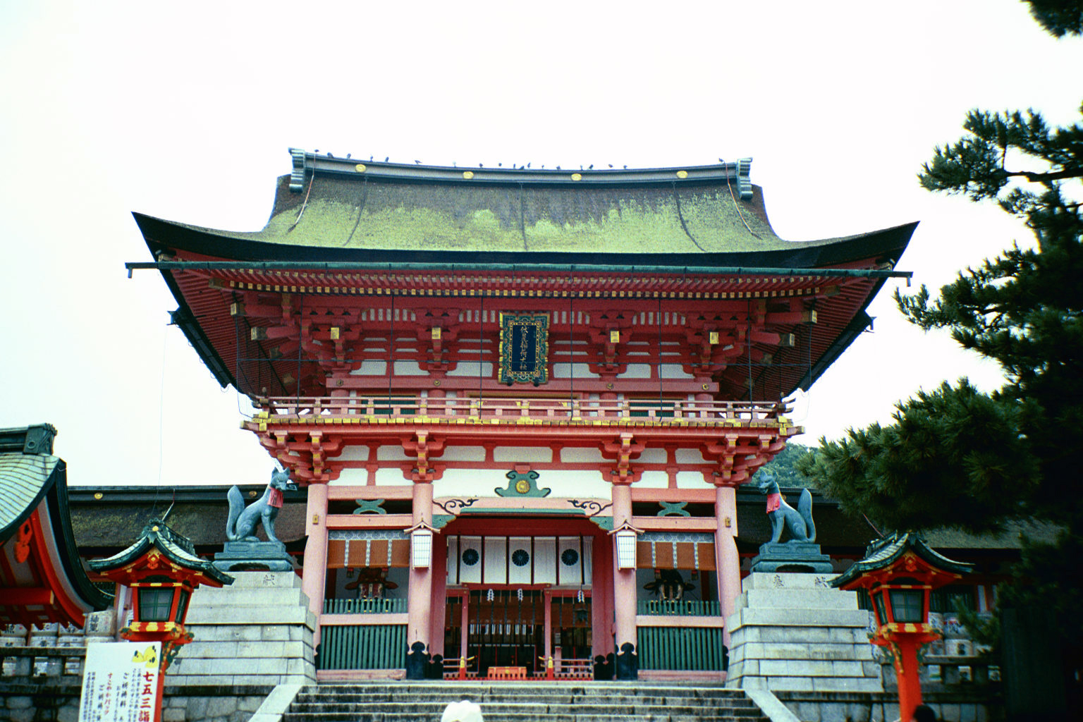 Fushimi Inari Taisha (Shrine), at the base of Inari Mountain (Inari-san), is dedicated to Inari, the god of rice and rice wine (sake). Its origins go back to the early Heian period (9th century), when Kukai had it moved to its present location in order to protect the temple of To-ji.